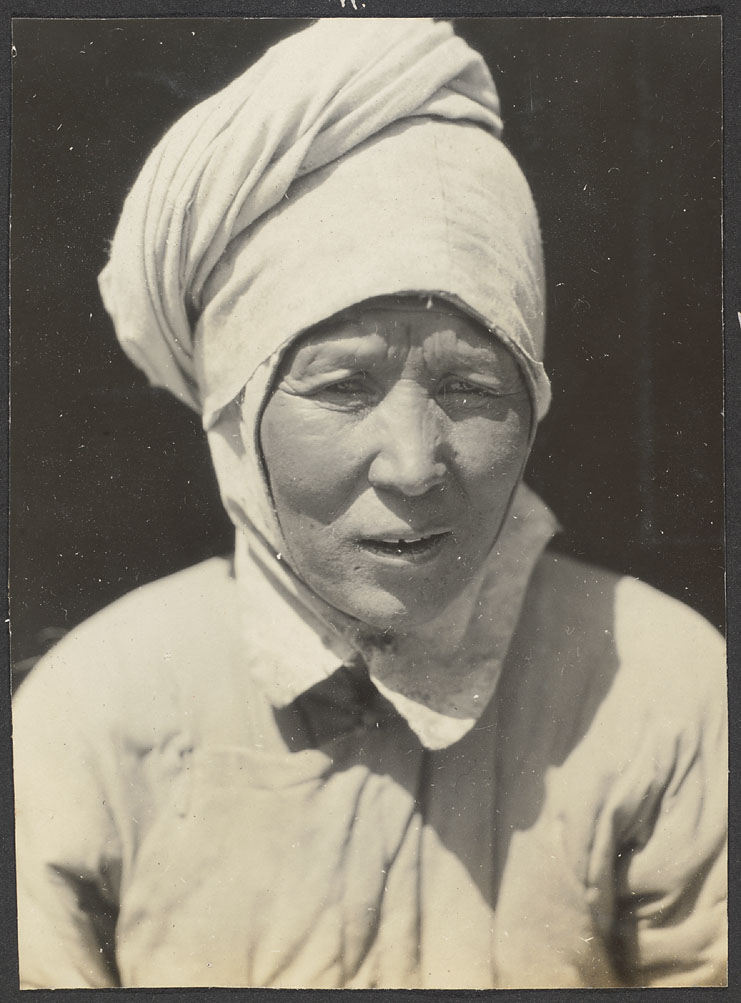 A Salar Muslim from w: Xunhua, China